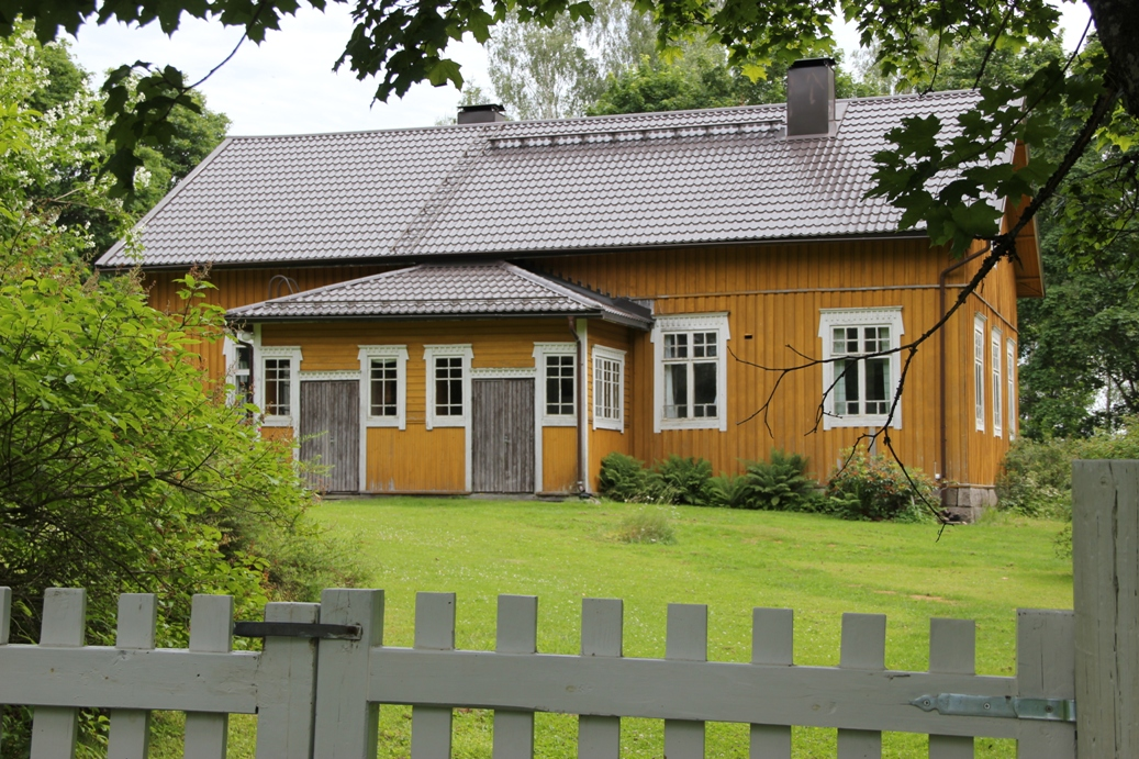 Wivola mansion in Kärkölä, Pusula, Lohja, Finland